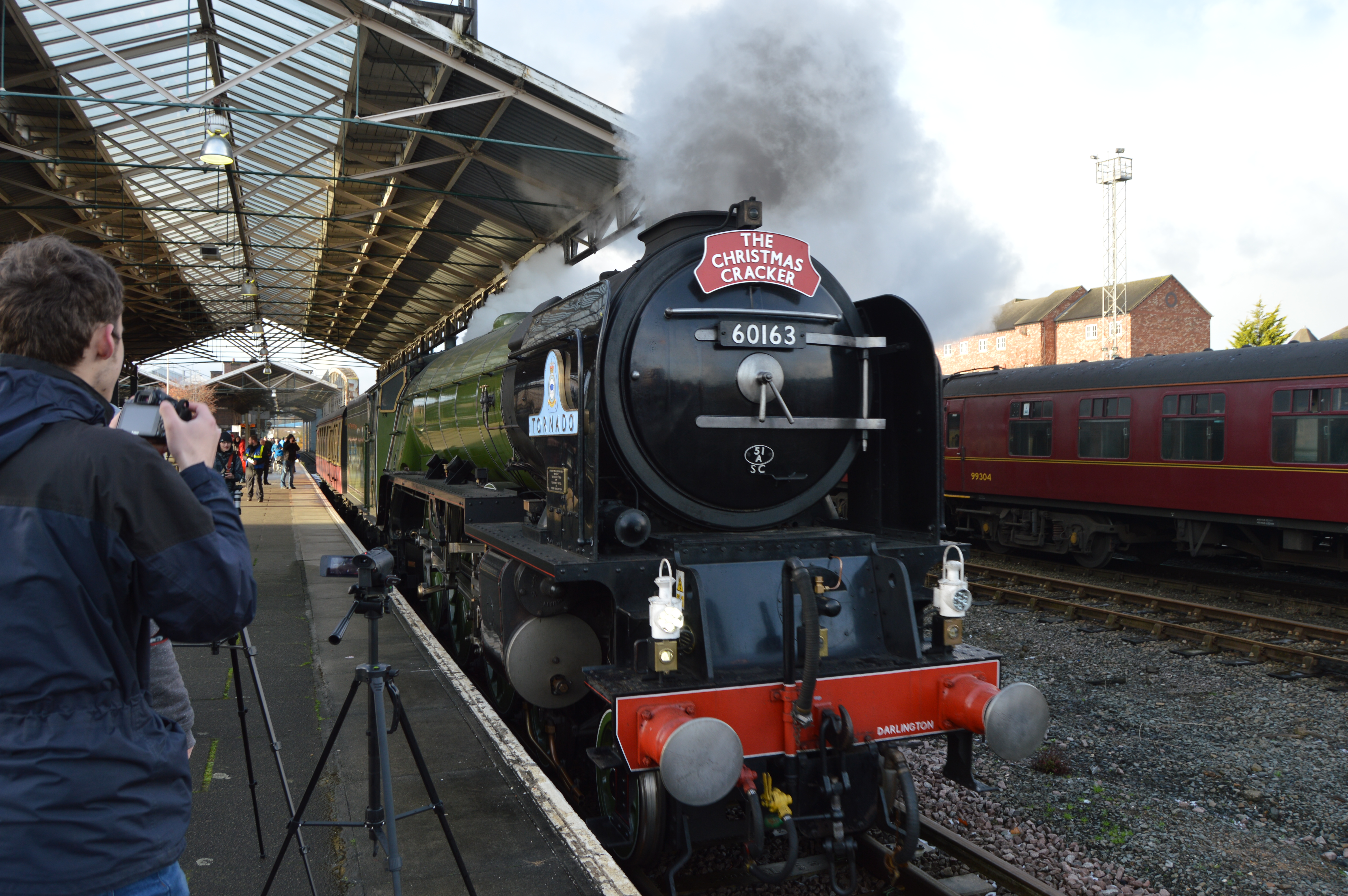 Tornado passing through Chester's platform 7 while making it's way back to the sidings following turning.